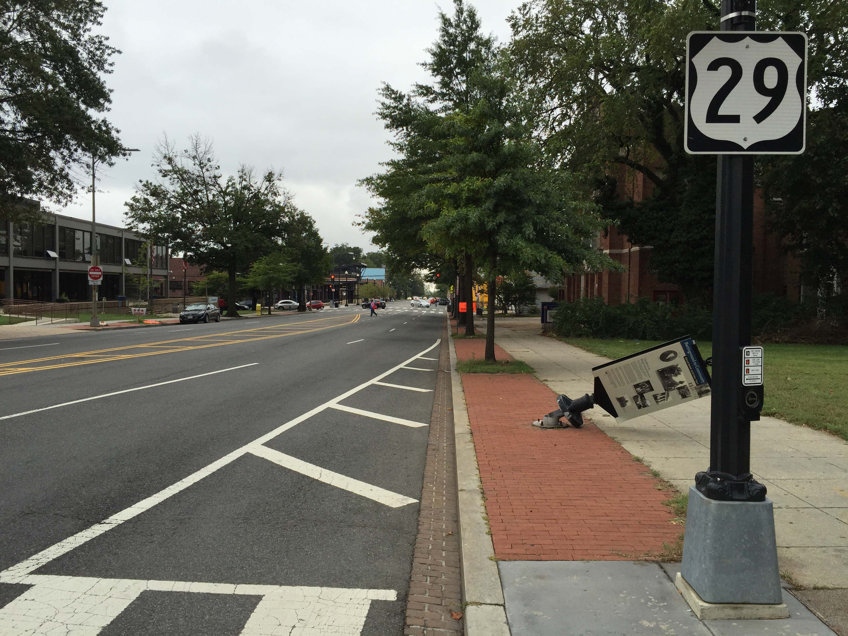 View south along U.S. Route 29 (Georgia Avenue NW) at Quackenbos Street NW in Washington, D.C.